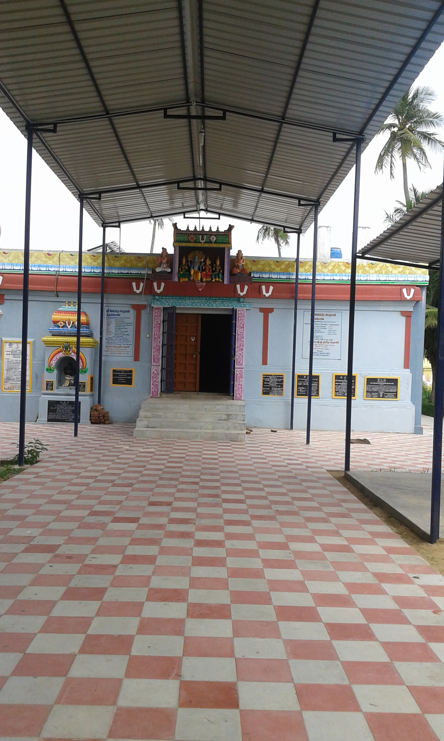 Vaikunda vinnagaram